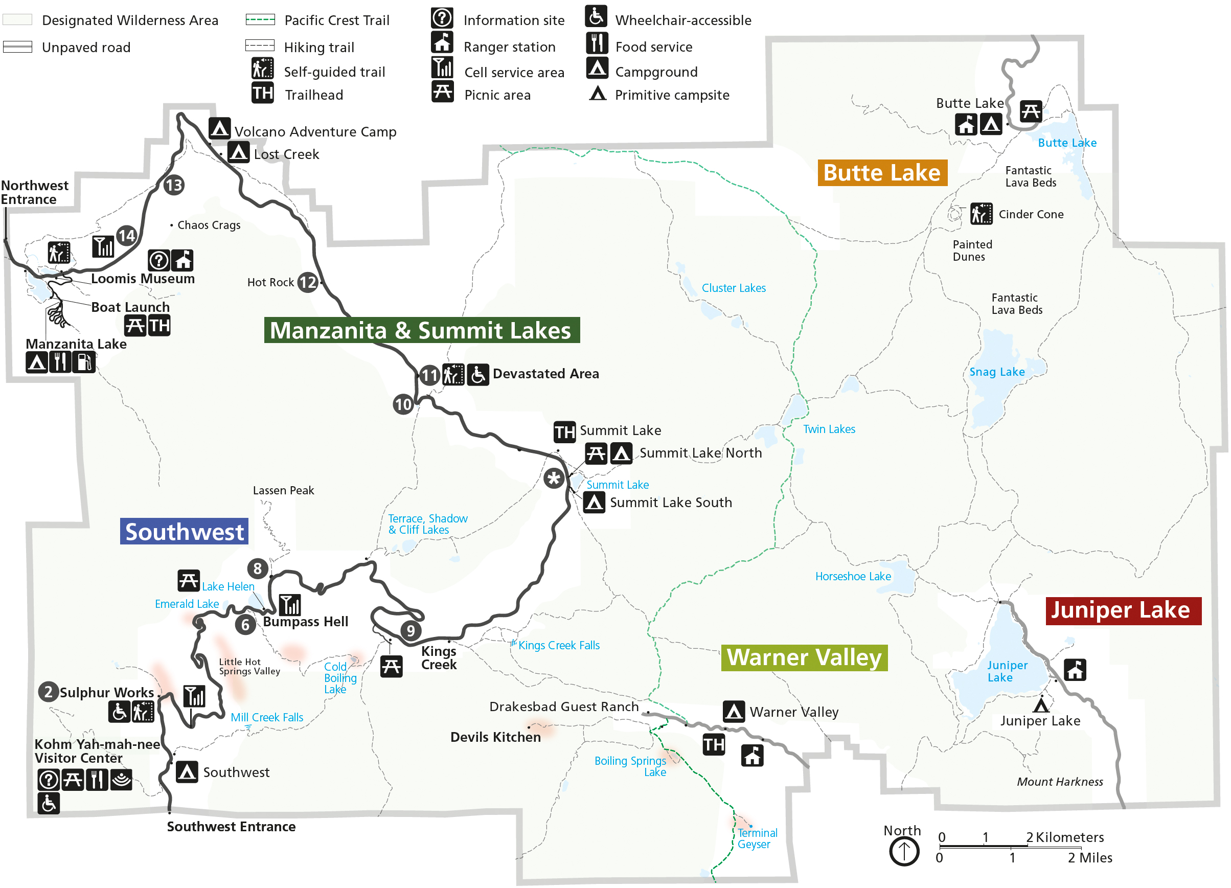 Map: Lassen Volcanic National Park – Places To Go